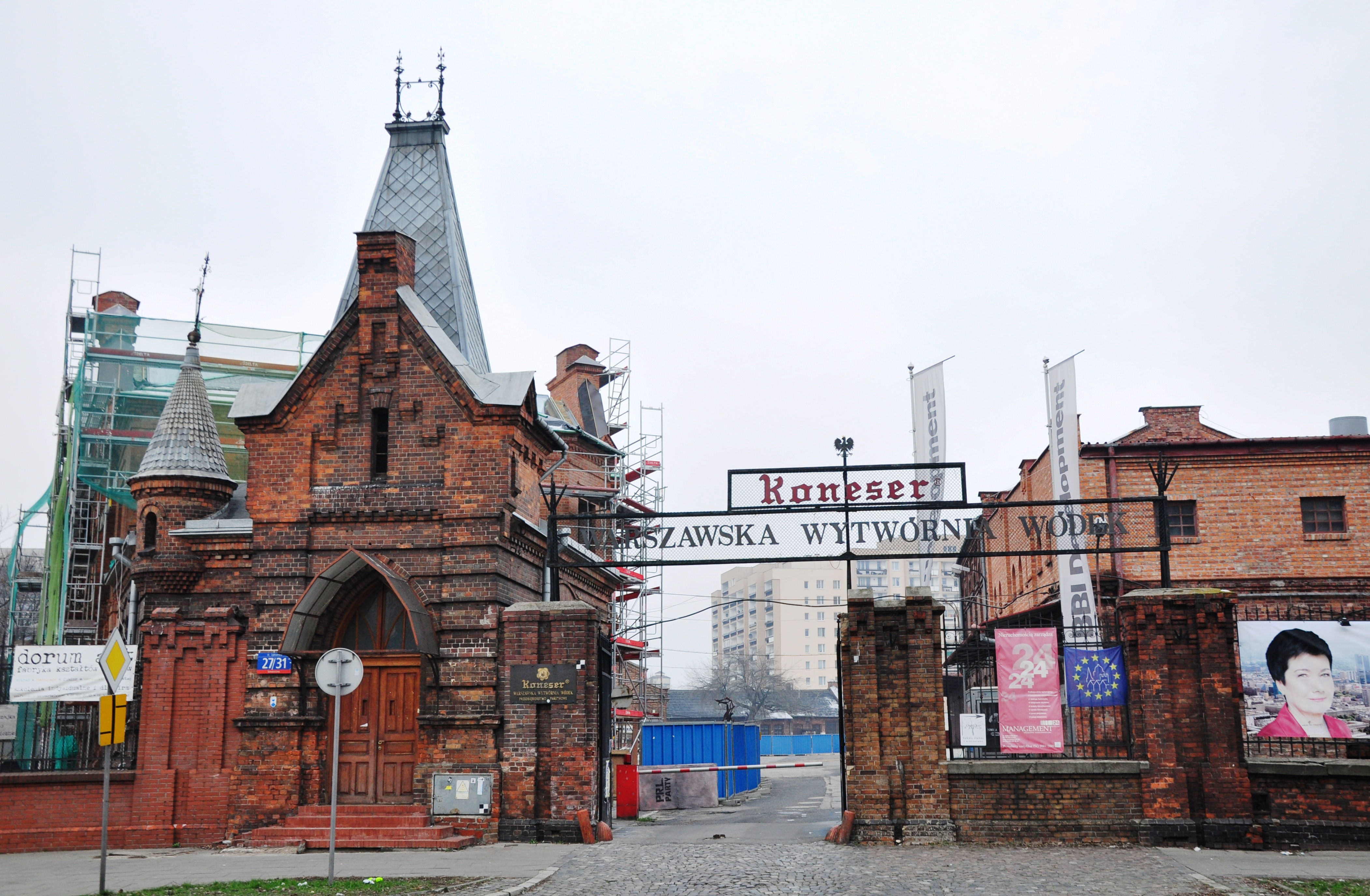 Koneser factory Warsaw